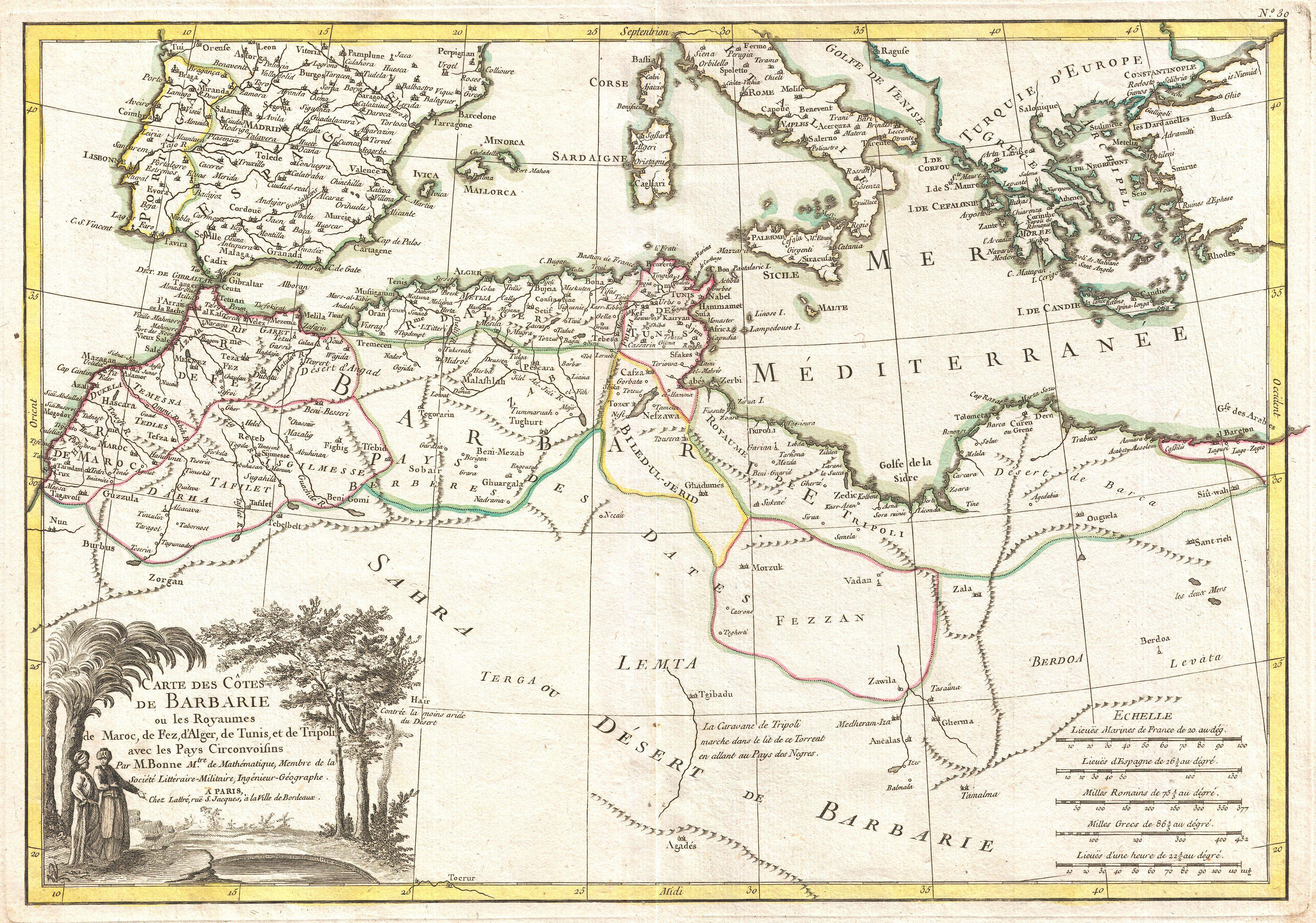 A beautiful example of Rigobert Bonne's decorative map of the Maghreb or Barbary Coast. Covers northwestern Africa and the western Mediterranean. This region, known since the days of Columbus as Tierra Firma, consists of the modern day nations of Tunisia, Libya, Algeria and Morocco. Offers excellent detail throughout showing mountains, rivers, national boundaries, cities, regions, and tribes. As Bonne was preparing this map, the Barbary Coast was a hotbed of piracy - much like the Somali coast today. The Barbary Pirates would attack trading ships passing through the narrow Gibraltar straits and western Mediterranean. Ships would be destroyed or appropriated, cargo sized, and the crews and passengers enslaved. By the early 19th century, piracy in this region had become so intense that the United States launched its first major naval offensive against Tripoli. The resultant 1805 Battle of Derne later inspired a portion of the lyrics of the Marines' Hymn , the shores of Tripoli. A large decorative title cartouche appears in the lower left quadrant. Drawn by R. Bonne in 1771 for issue as plate no. 30 in Jean Lattre's 1776 issue of the Atlas Moderne .